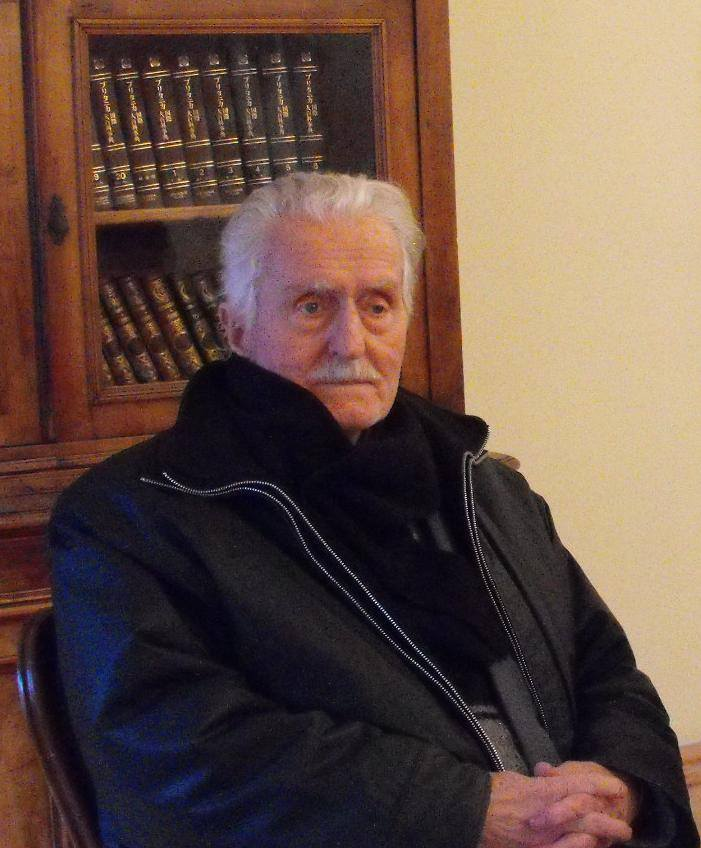 Yuri Sikharulidze